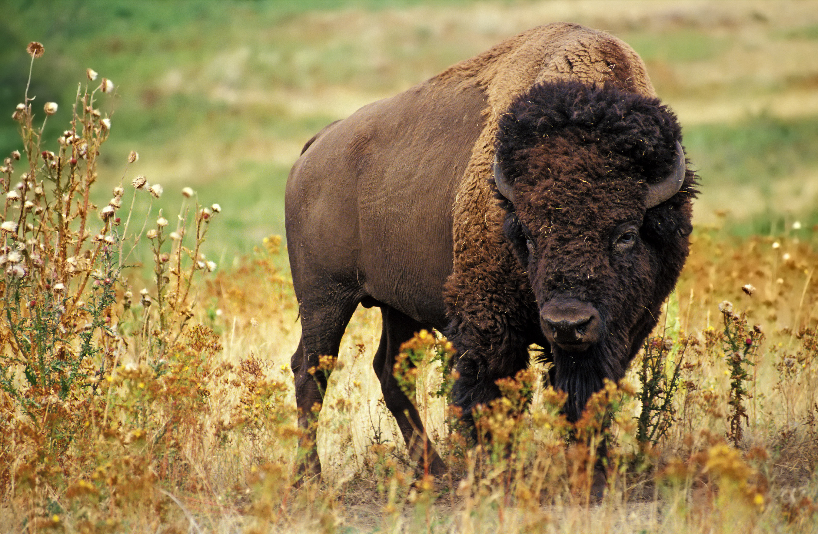 A bison